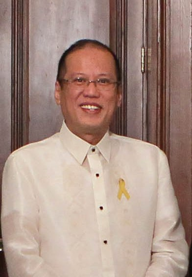 Malacanan Palace,The Official Residence of the President of the Republic of the Philippines